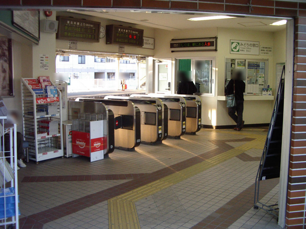 Minamisendai Station on Tohoku Main Line.